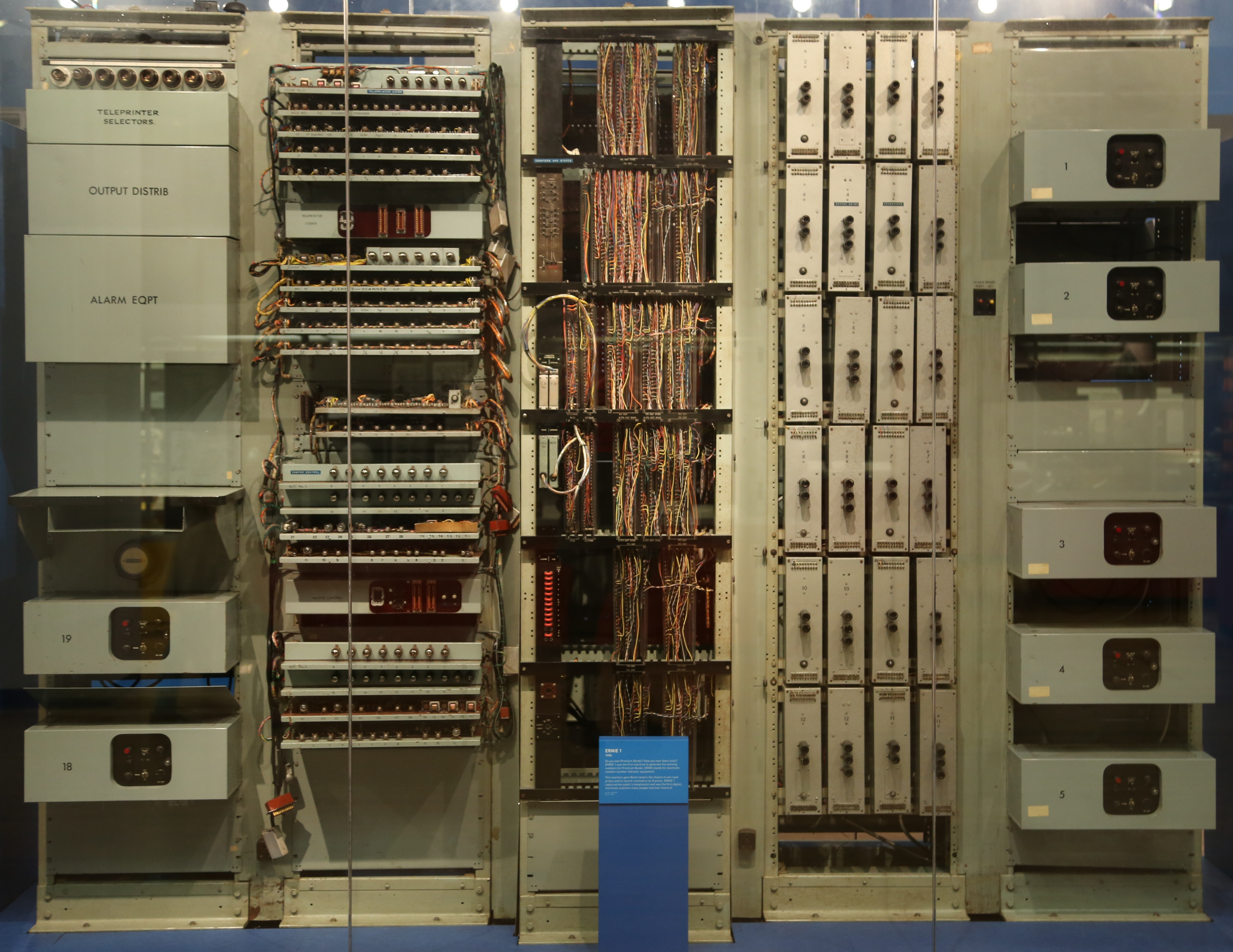 Photo of ERNIE 1 the first premium bond number producing machine in the science museum